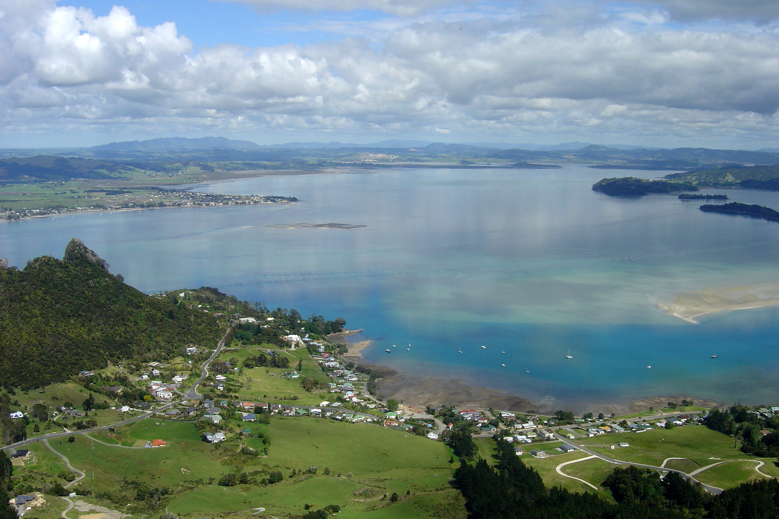 Whangarei Harbour from the summit of Mt Manaia